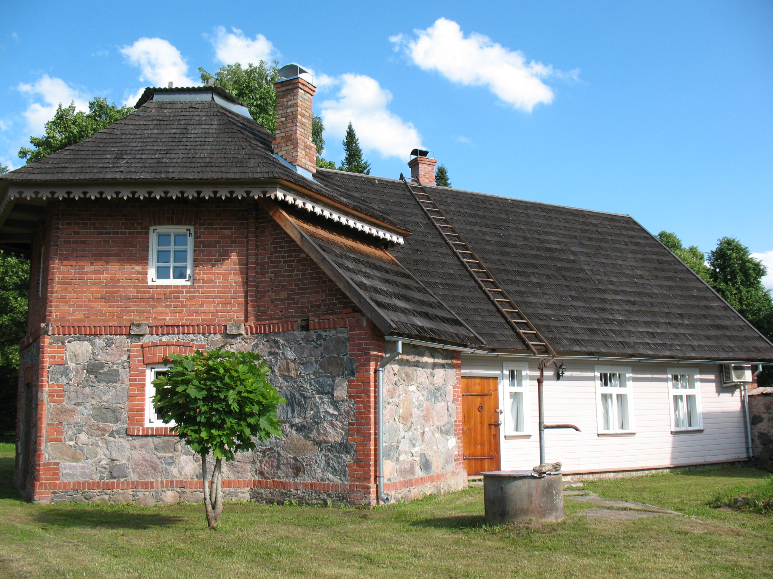 Tartu maakond, Rannu vald, Rannu alevik